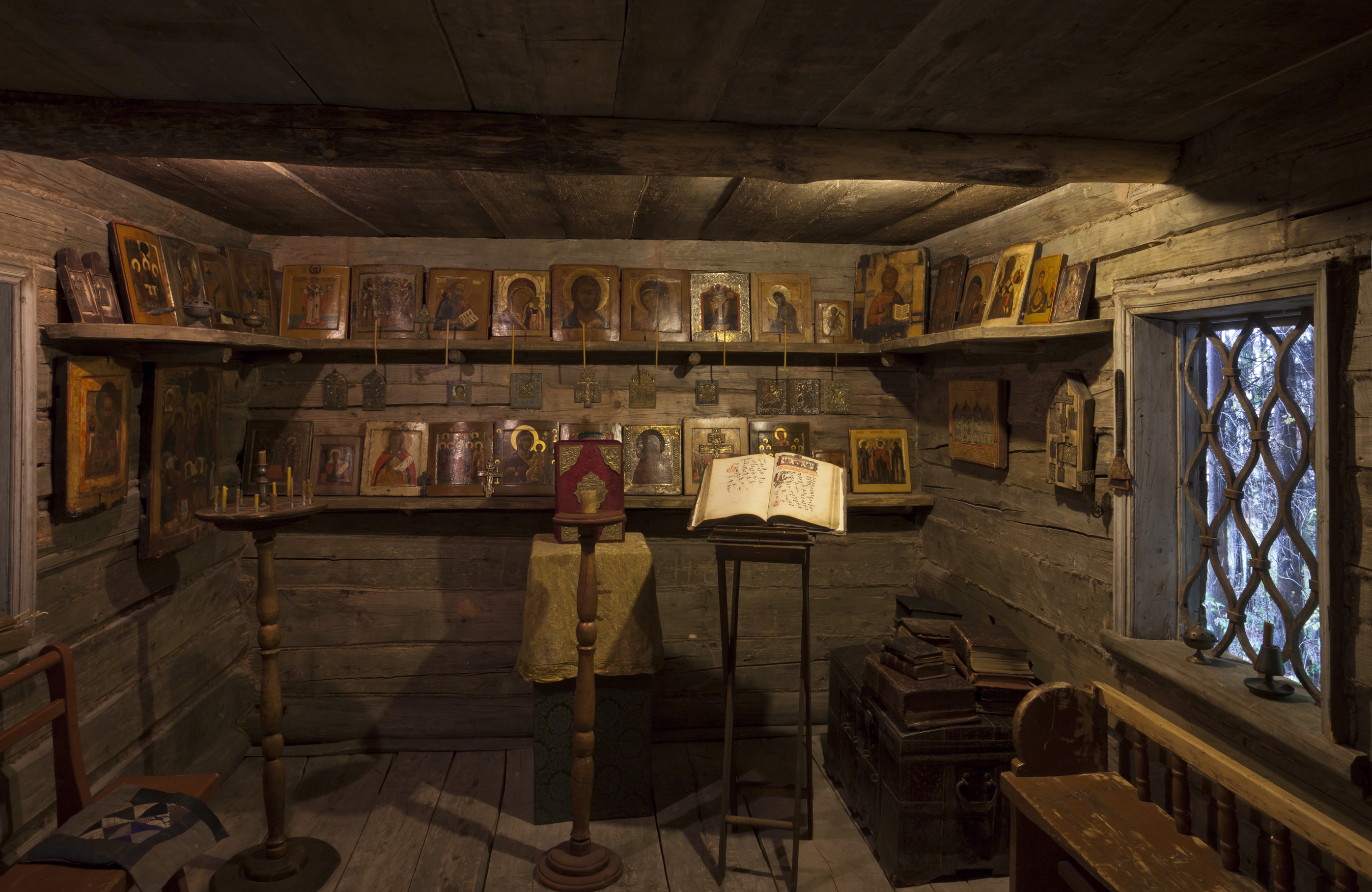 Old Believers' chapel in the Museum of the Russian icon, Moscow.